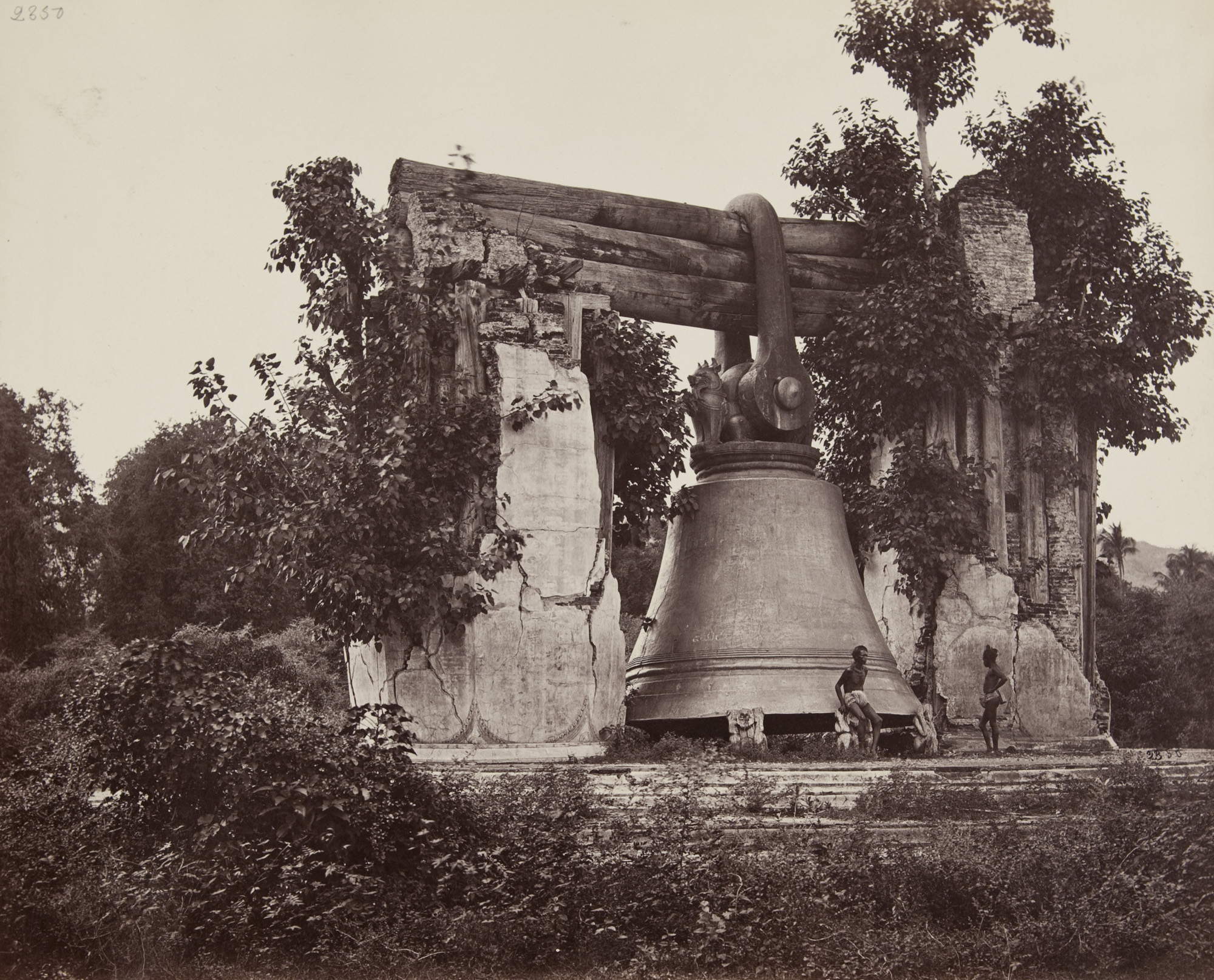 Albumen print of the Mingun Bell in Burma from the Museum of Photographic Arts